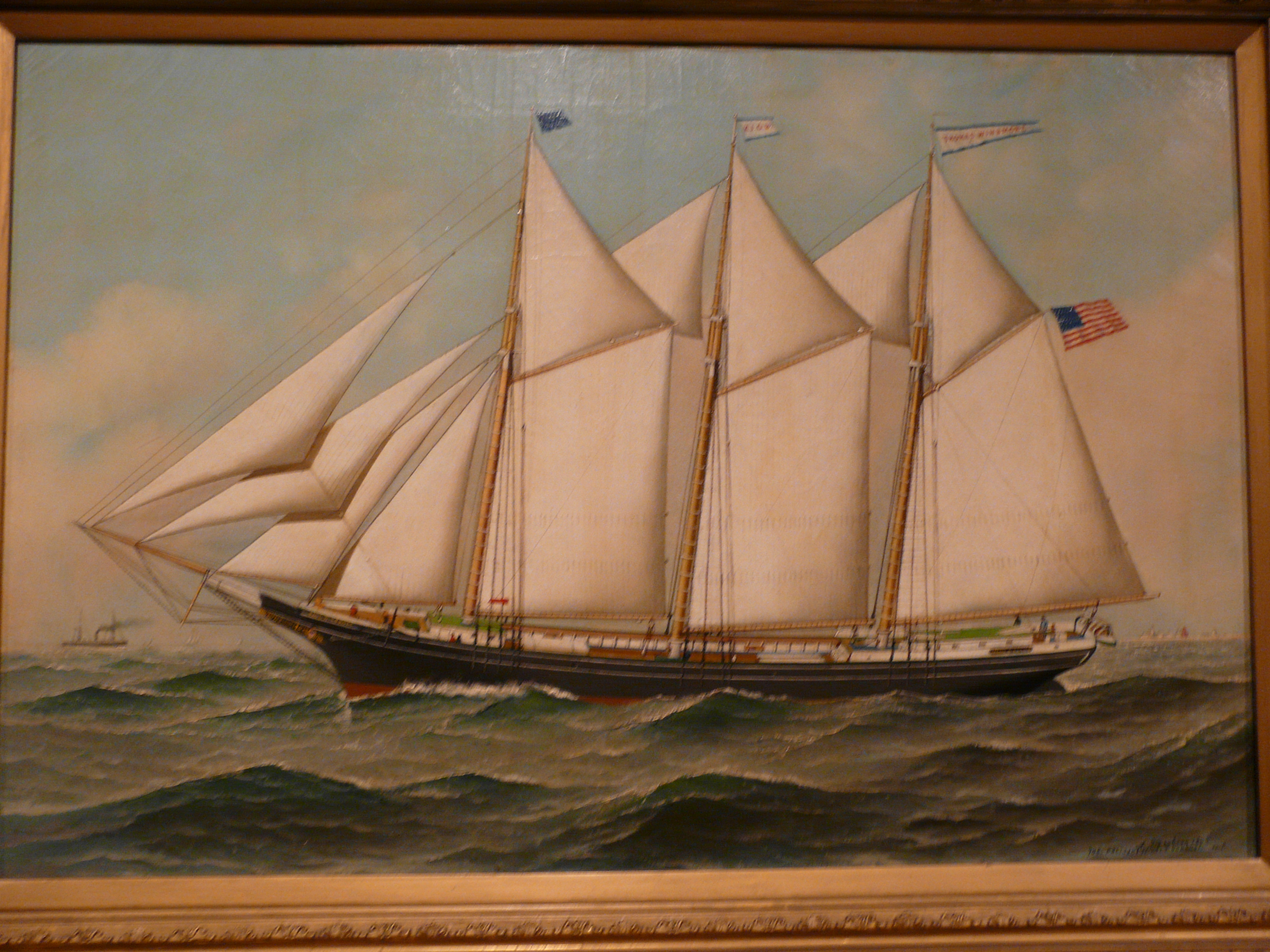 Independence Seaport Museum Photos of many items (mostly, public domain paintings) are followed by photos of official descriptions. Please transfer the description to the photos, updating the descripition here, and consider deleting the descriptions.